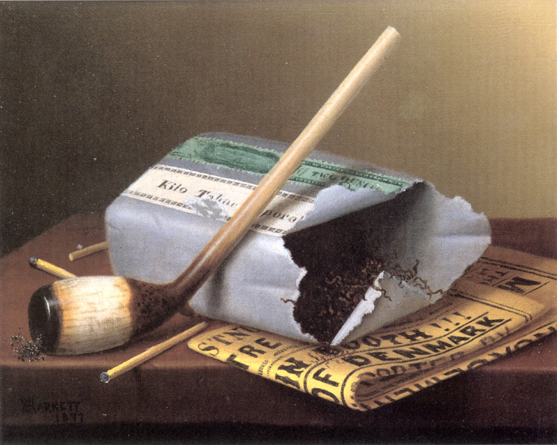 A Smoke Backstage, oil on canvas painting by William Michael Harnett, 1877, Honolulu Museum of Art Native nameHonolulu Museum of ArtLocationHonolulu, USACoordinates21° 18′ 14″ N, 157° 50′ 54″ W Established1922Websitehonolulumuseum.orgAuthority control VIAF: 297612039 ISNI: 0000 0004 4661 5836 SUDOC: 185174566 , accession 3211.1